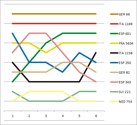 Europe Female Positions during the 2008 Vintage